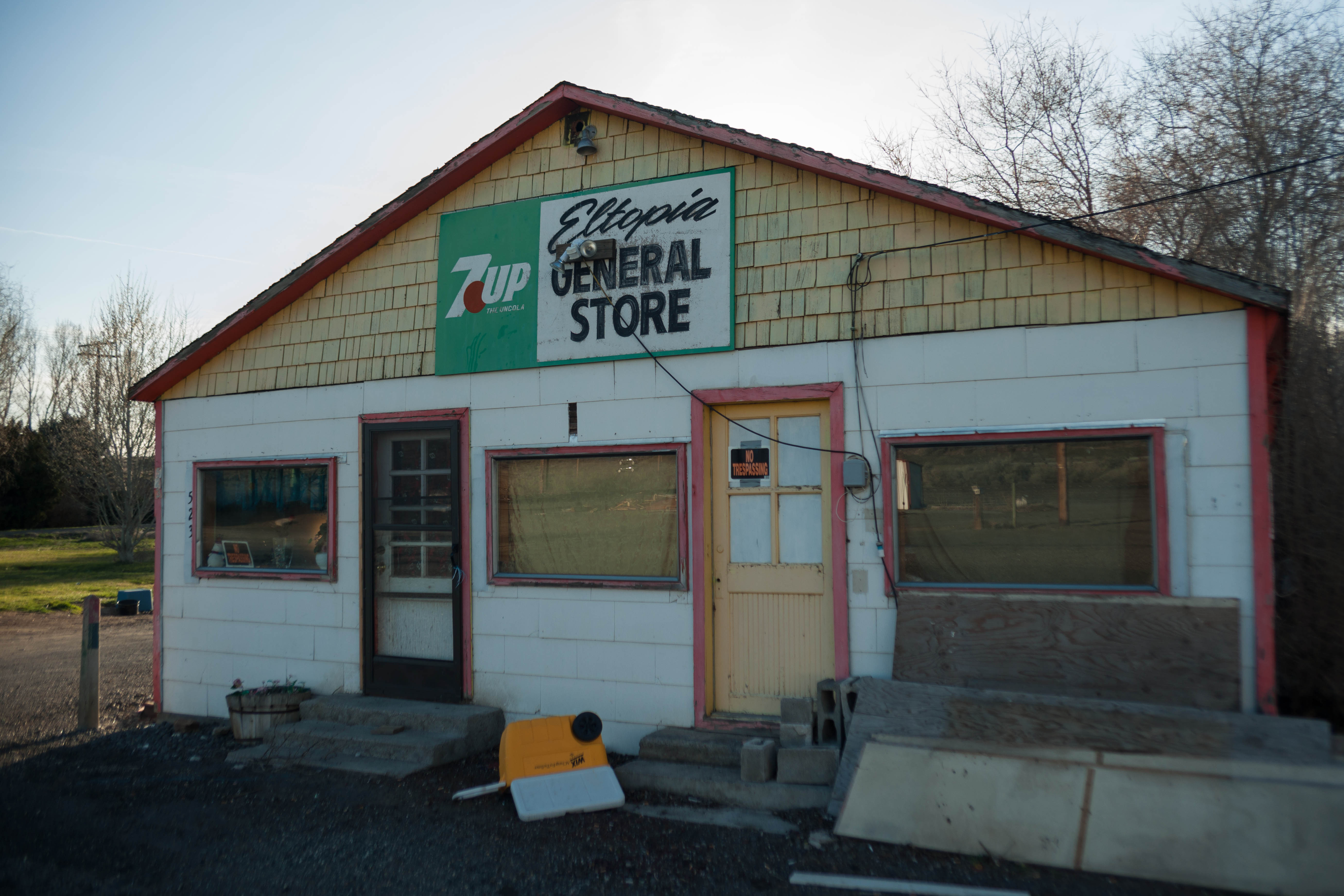 A building in Eltopia, Washington.